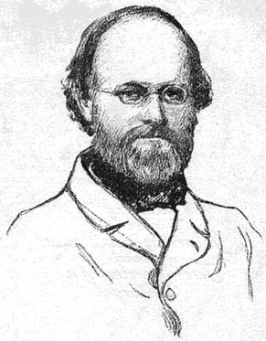 Drawing of Charles Fox Hovey that originally appeared in "The History of the House of Hovey", published in 1920.